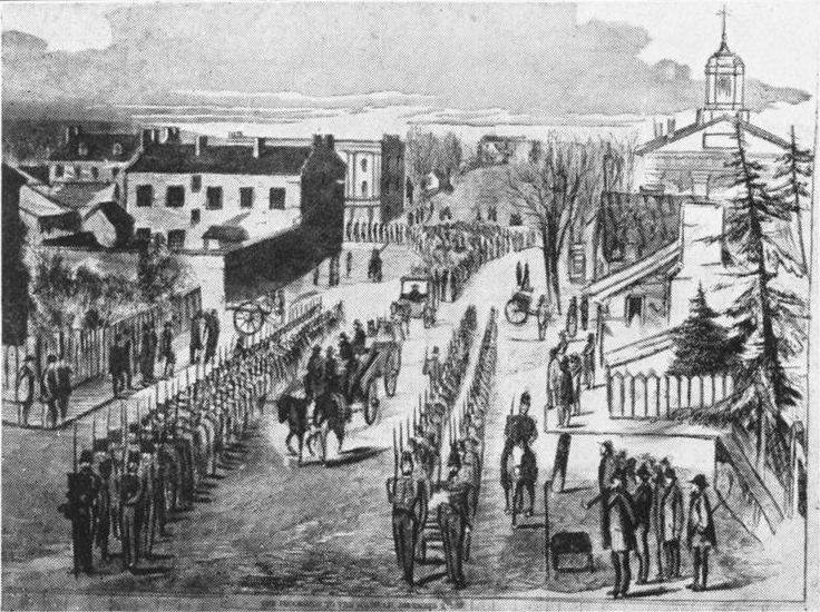 Driawing captioned: "John Brown on the way to be executed two and one-half blocks from the jail to his scaffold."